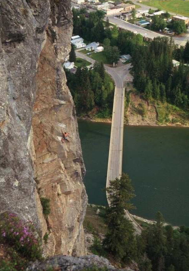 Looking southeast at the Metaline Falls Bridge